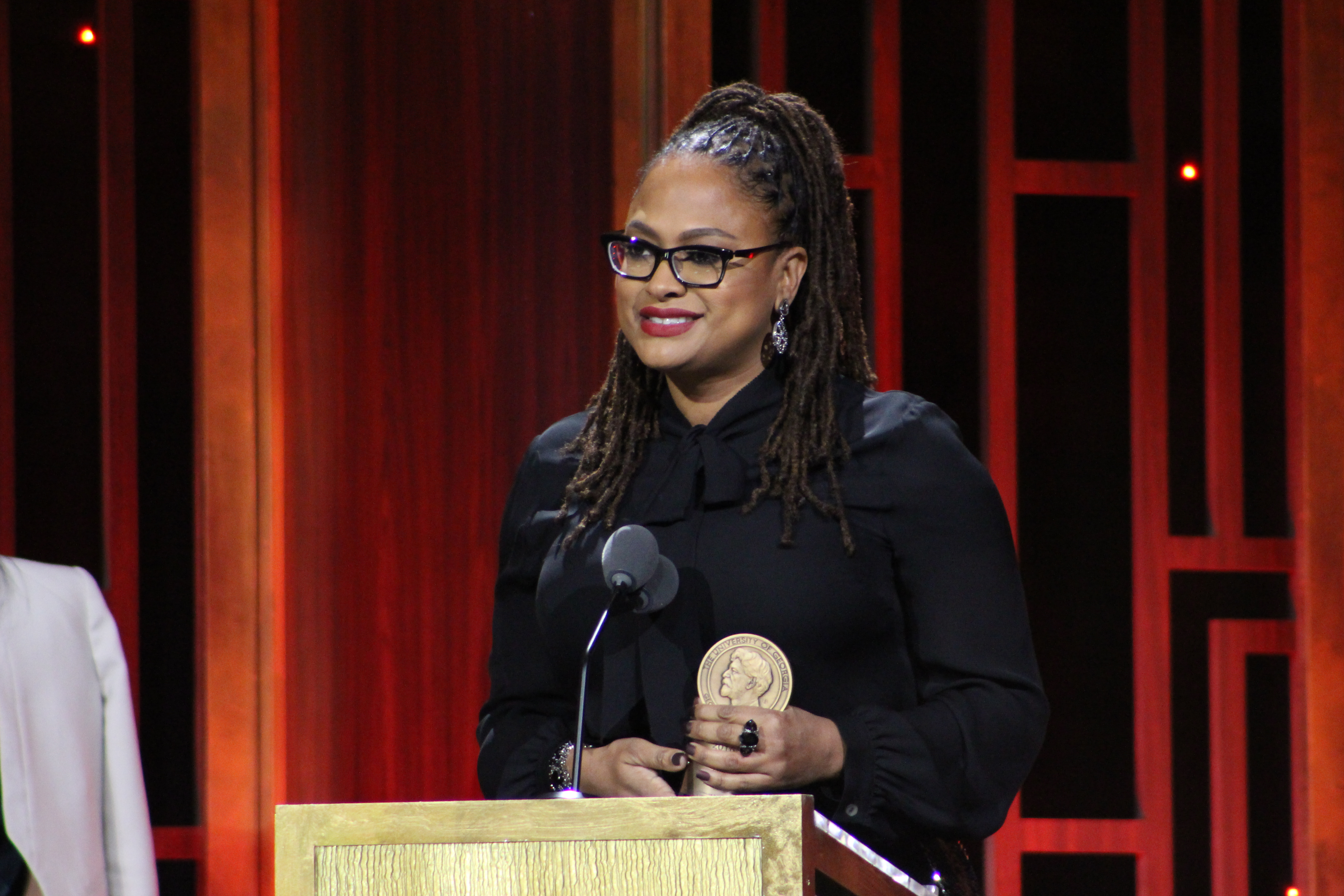 NEW YORK, NY - MAY 20: Ava DuVernay from 13th accepting her award during The 76th Annual Peabody Awards Ceremony at Cipriani, Wall Street on May 20, 2017 in New York City.